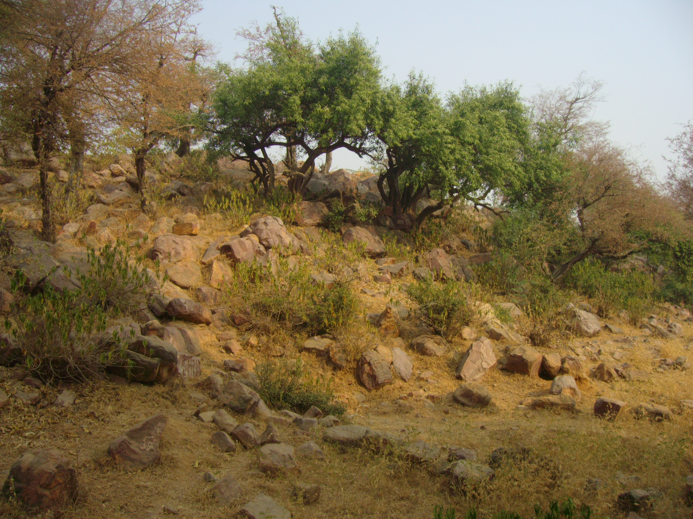 Govardhan Hill in Uttar Pradesh, India